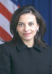 Dina Powell, Assistant to the President for Presidential Personnel (as of 2005)